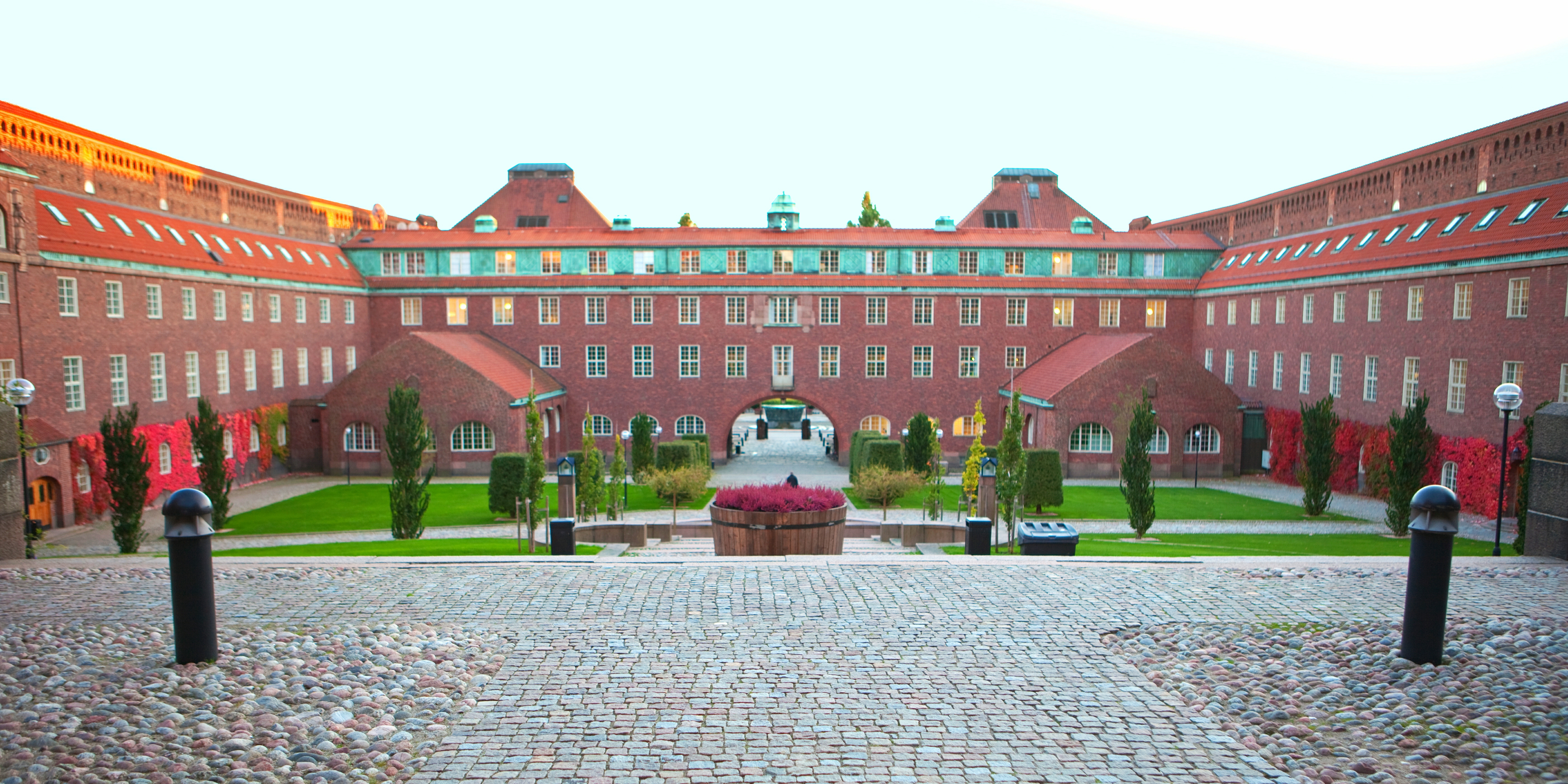 KTH, Royal Institute of Technology, Stockholm Sweden October 2012